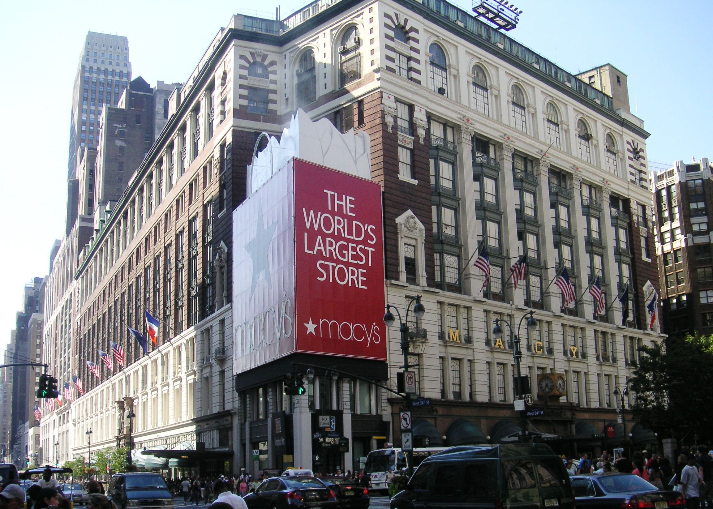 Macy's famous department store in New York on 5th Avenue